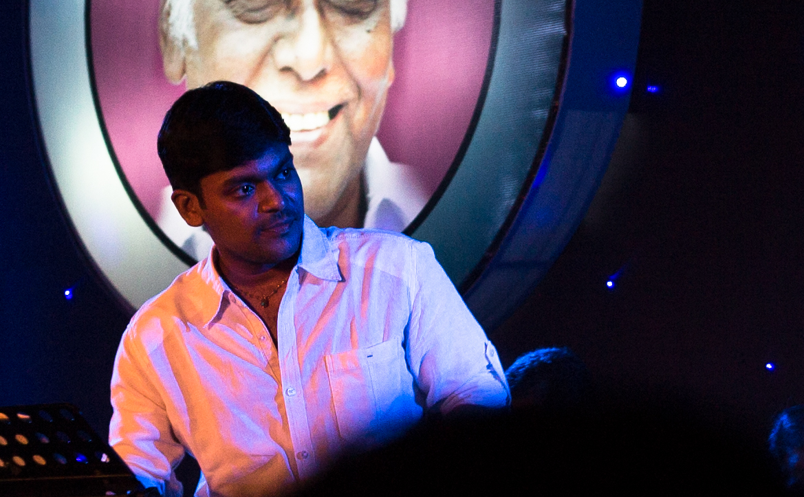 Vidhu Prathap is an Indian playback singer born on September 1, 1980. He has sung many songs in over a hundred and fifty films in mostly Malayalam and a few in Tamil, Kannada and Telugu languages. He is an accomplished singer with several hit songs in several landmark movies and is a regular part of the biggest stage shows in Malayalam both in India and abroad.